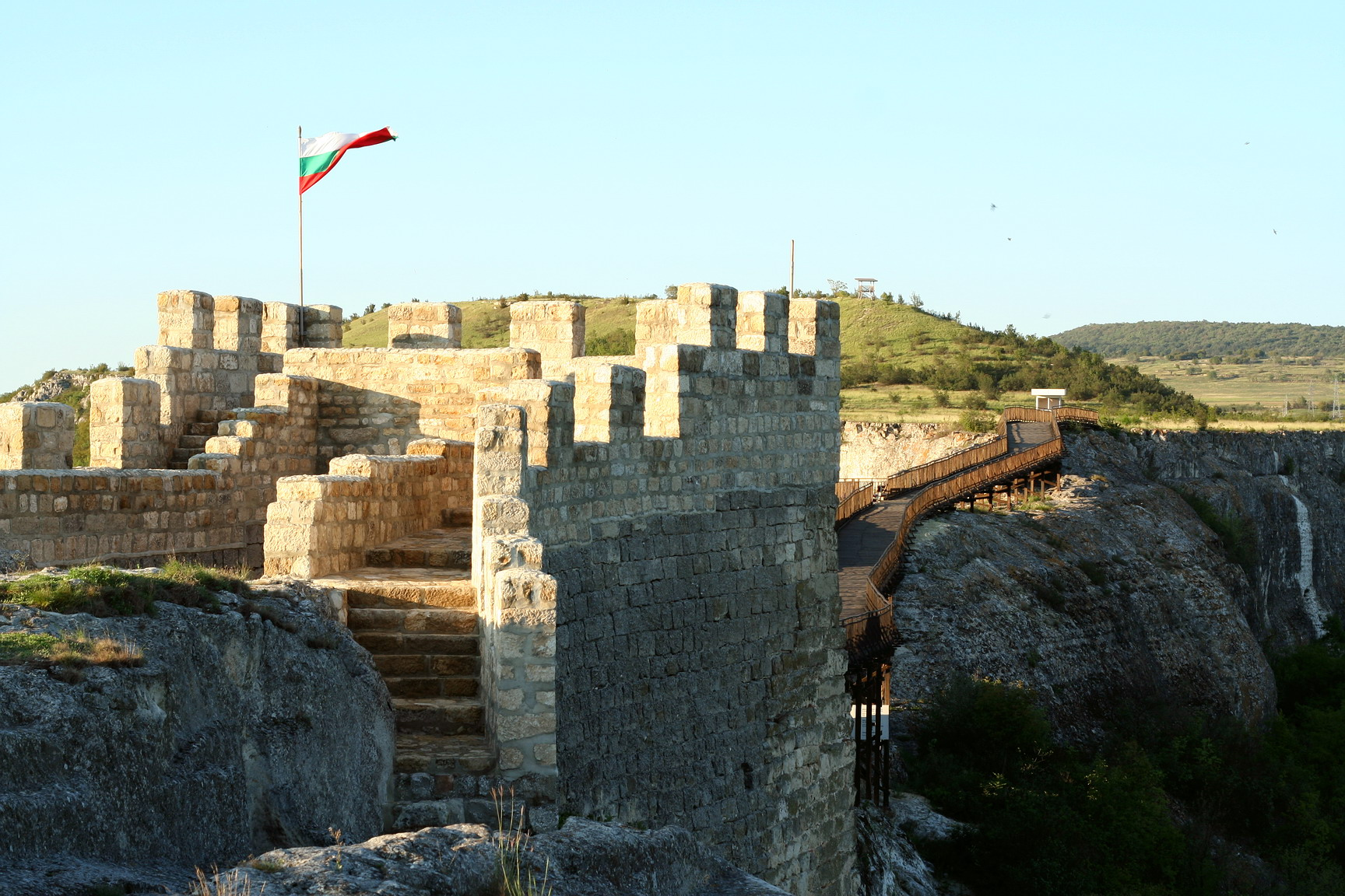 Fortress Ovech, beyond the town Provadia, Bulgaria